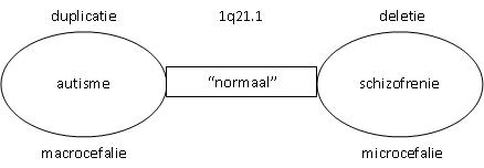 Assumed relation of genetic problems in 1q21.1